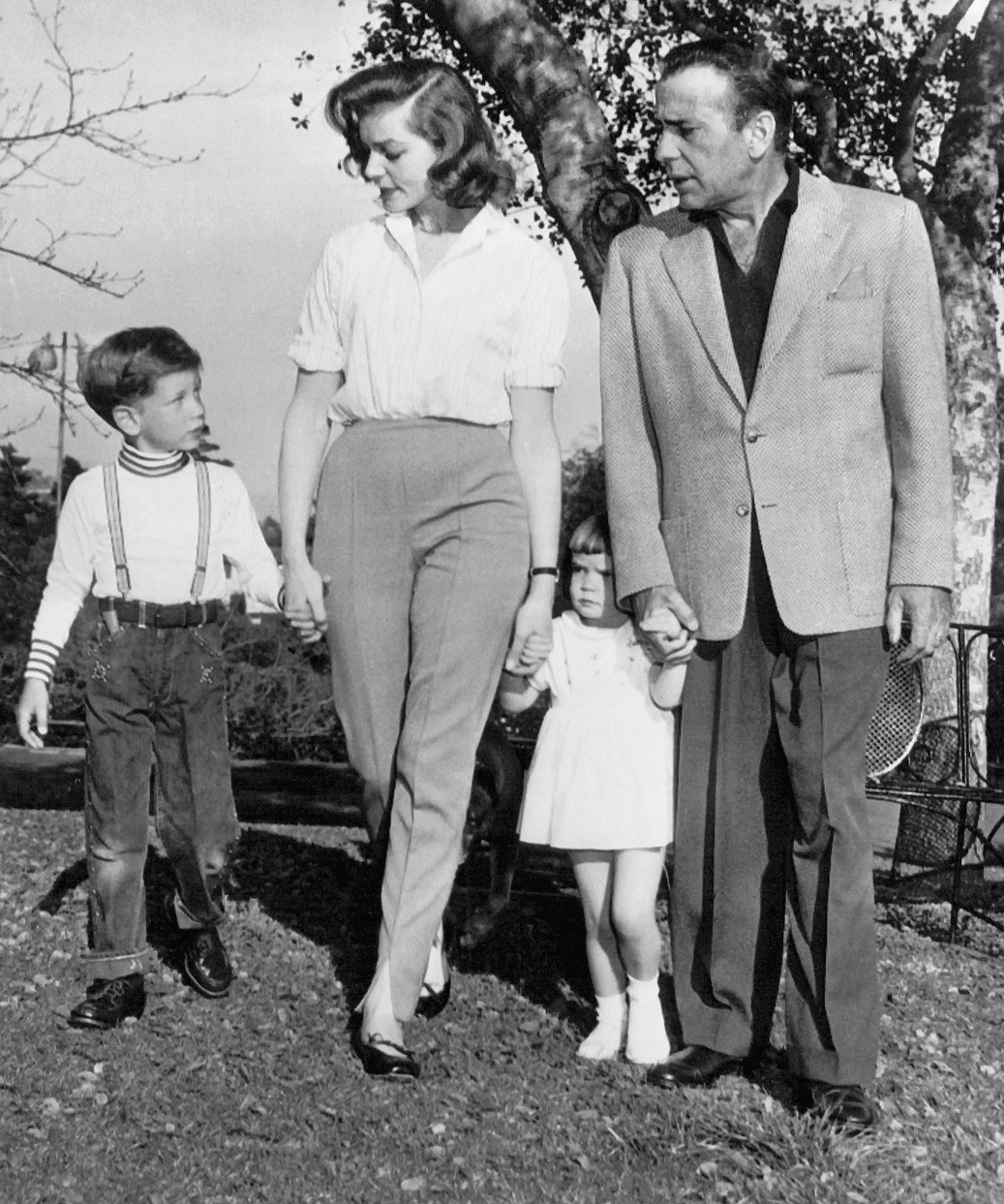 Photo of Humphrey Bogart and his family in April 1956. From left: son Stephen, wife Lauren Bacall, daughter Leslie and Bogart.